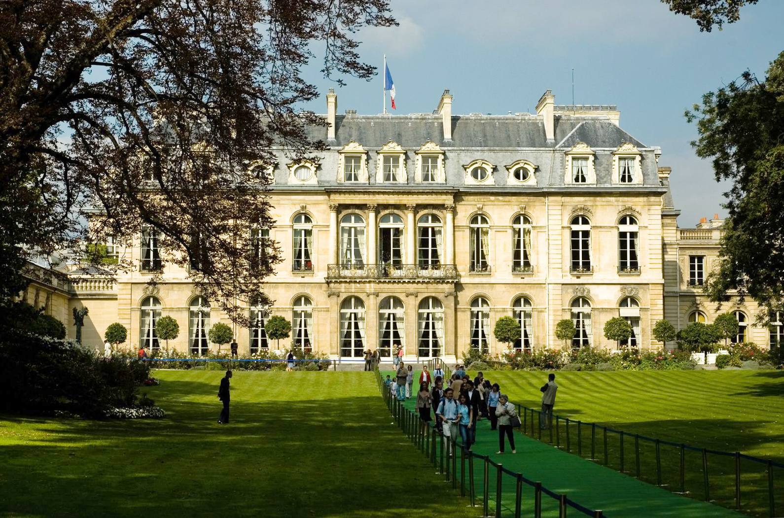 Elysée Palace